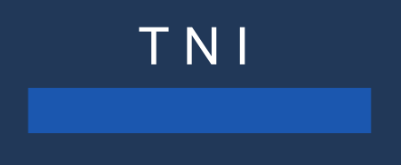 Second Seaman rank insignia that used on daily uniforms of Indonesian Navy